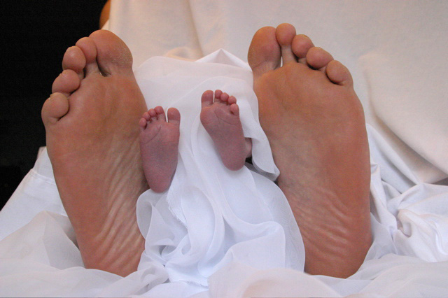 Object: Feet of adult and one month old infant compared Source: self Photographer: Nils Fretwurst Date: 2004